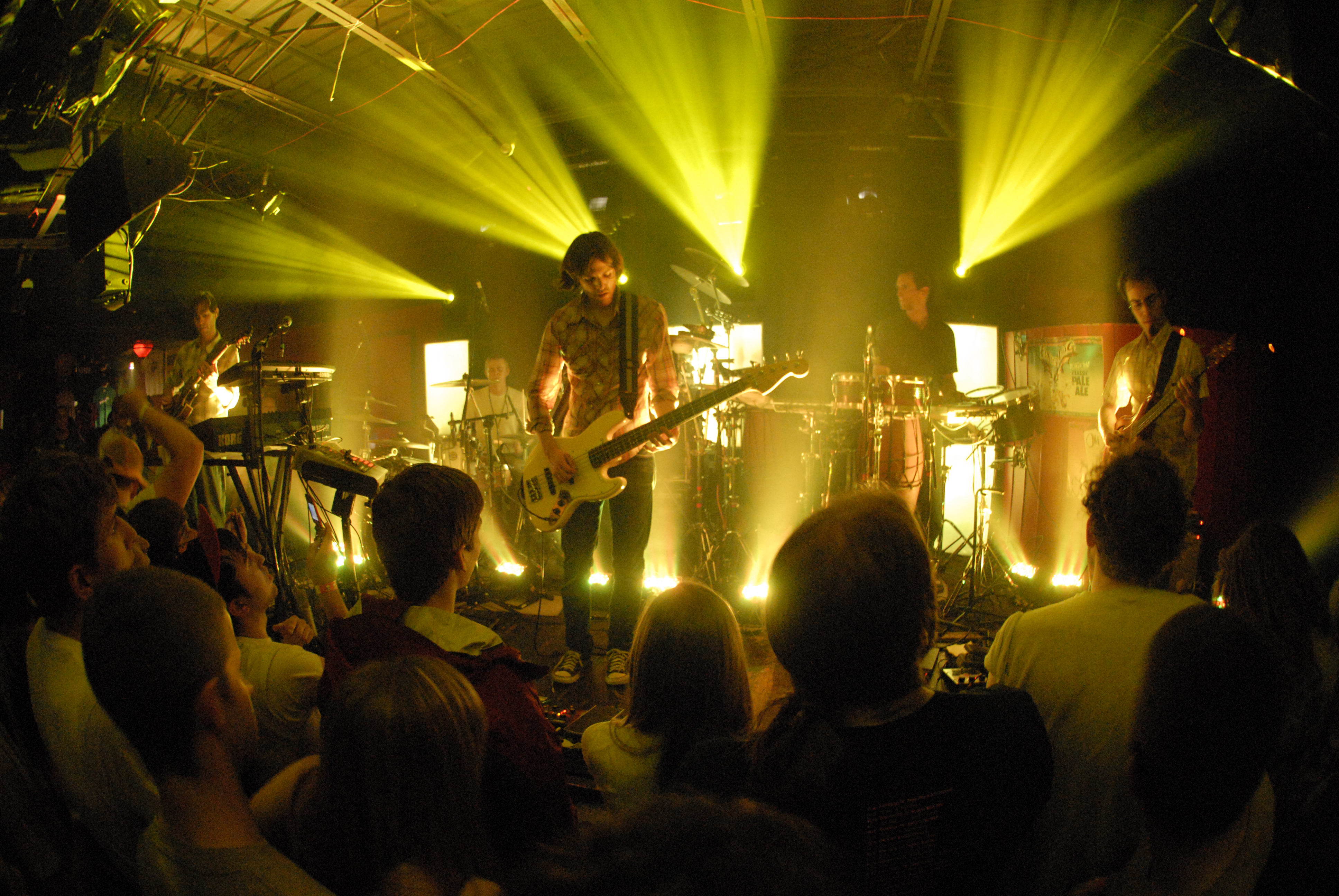 Lotus at The Lantern in Blacksburg, VA on 02-15-2009.